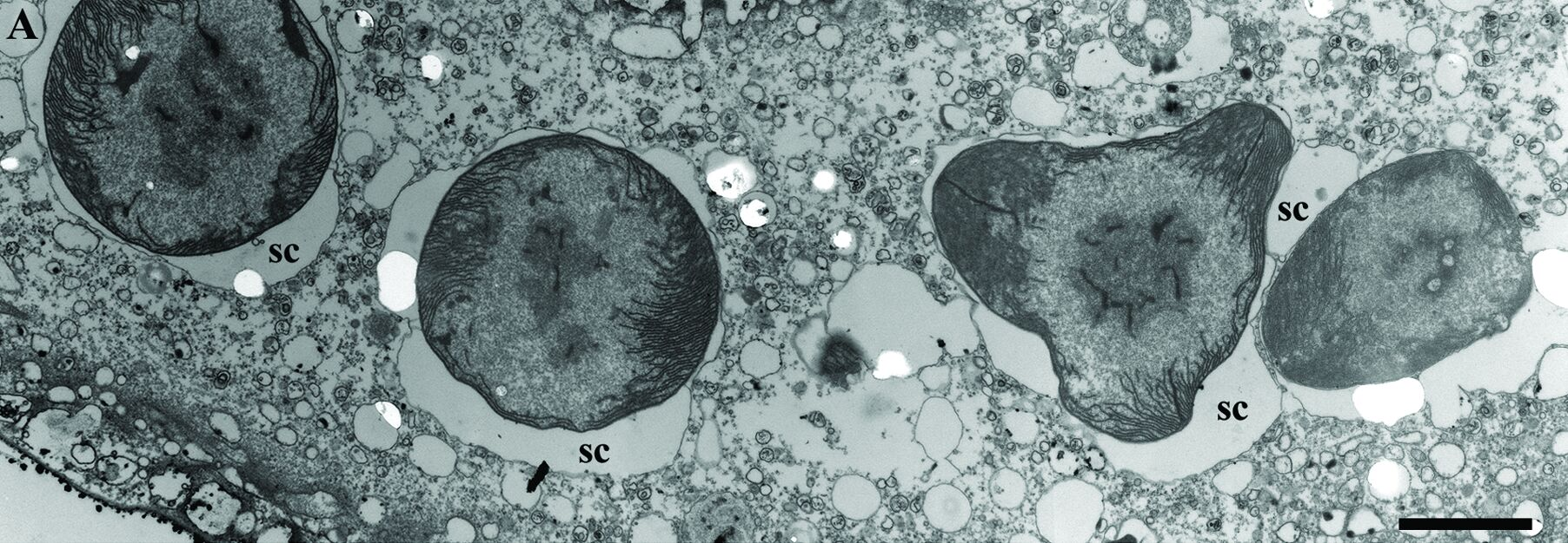 Transmission electron micrographs (TEM) showing the ultrastructure of putative primary endosymbionts in Auranticordis quadriverberis n. gen. et sp. A. Low magnification TEM showing four putative endosymbionts, each surrounded by sac-like vesicles (sc) defined by an outer membrane (Bar = 2 μm).